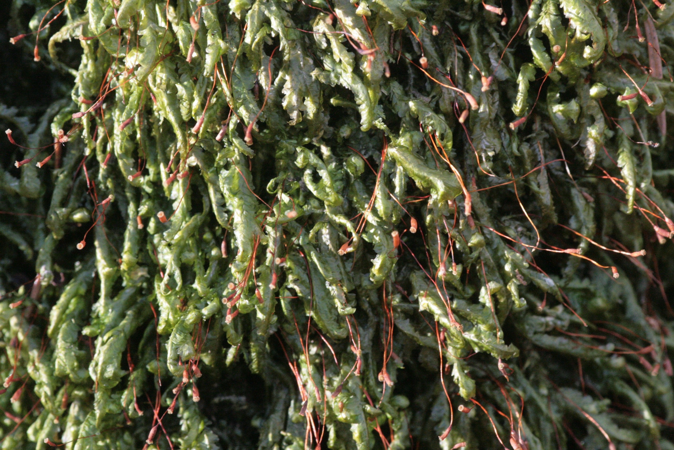 Homalia trichomanoides